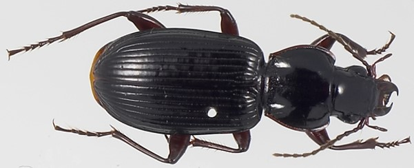 Piesmus submarginatus, location: Florida, USA